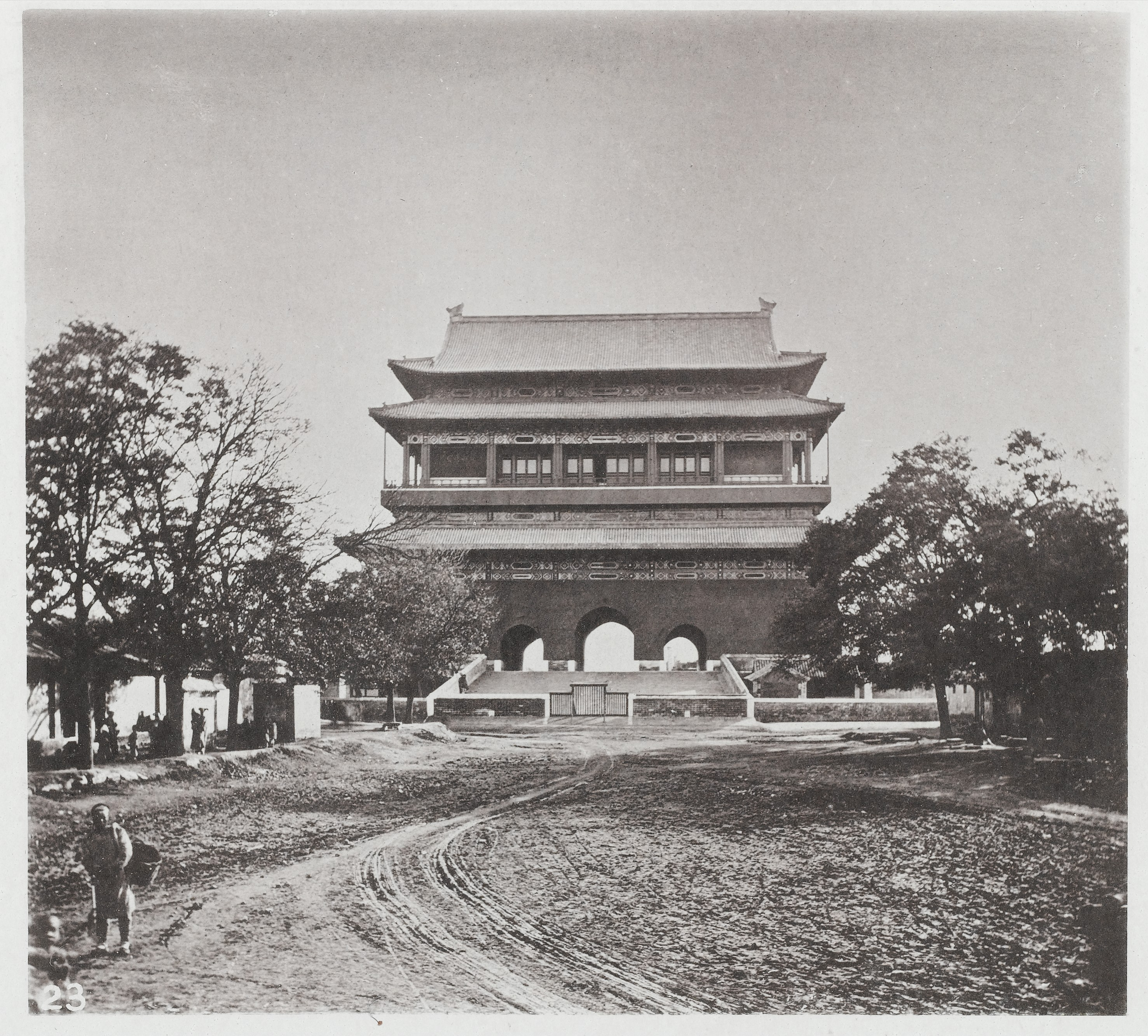 The Drum Tower, Peking General Collections Keywords: John Thomson; Architecture as Topic; Ming Dynasty; China; Architecture; Manchu (Qing) Dynasty; Peking (Beijing)